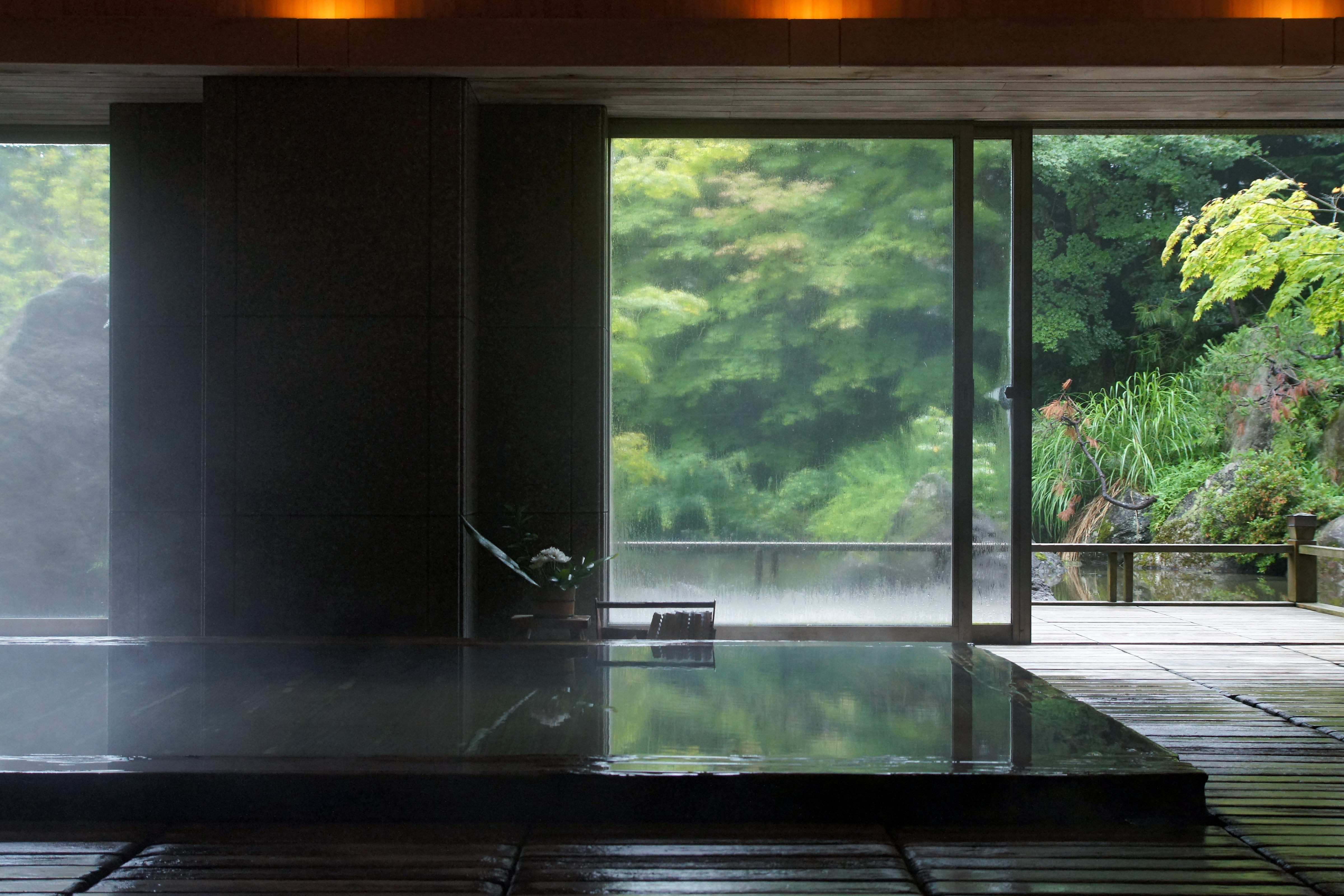 at KAI Tsugaru in Owani, Aomori prefecture, Japan